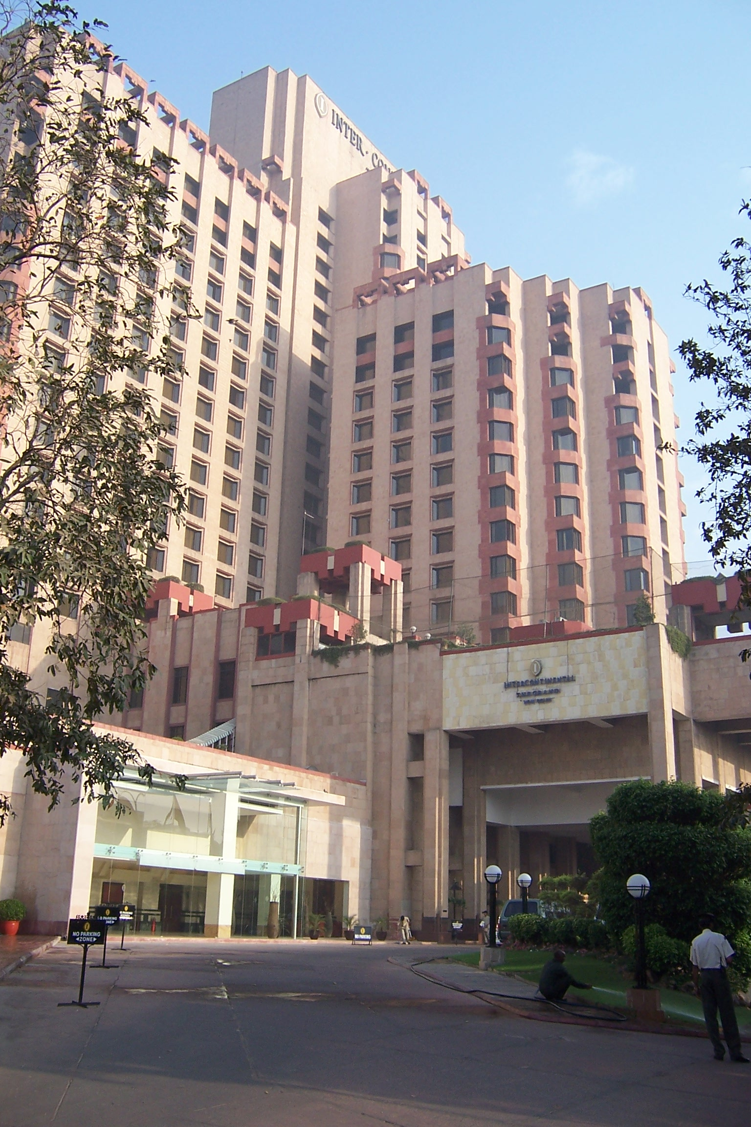 InterContinental The Grand hotel, New Delhi. Taken by me, 27 February 2006.